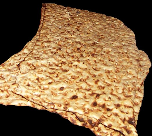 Sangak, a plain, rectangular, or triangular Iranian whole wheat sourdough flatbread